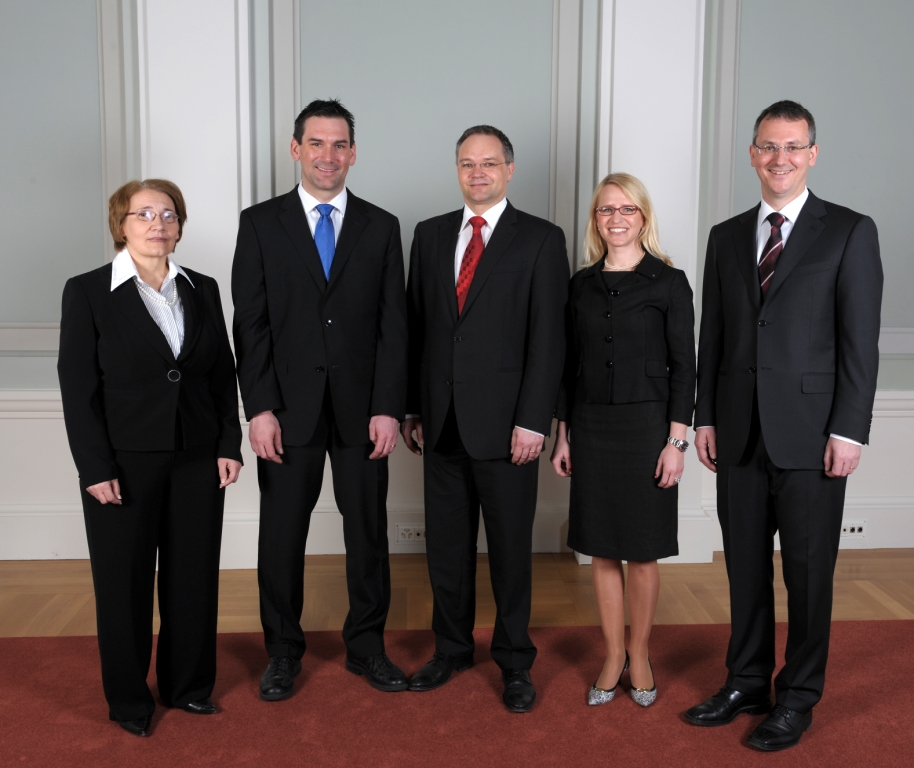 The former government of the principality of Liechtenstein at the day of the inauguration. From left to right: Regierungsrätin Renate Müssner, Regierungschef-Stellvertreter Martin Meyer, Regierungschef Klaus Tschütscher, Regierungsrätin Aurelia Frick, Regierungsrat Hugo Quaderer